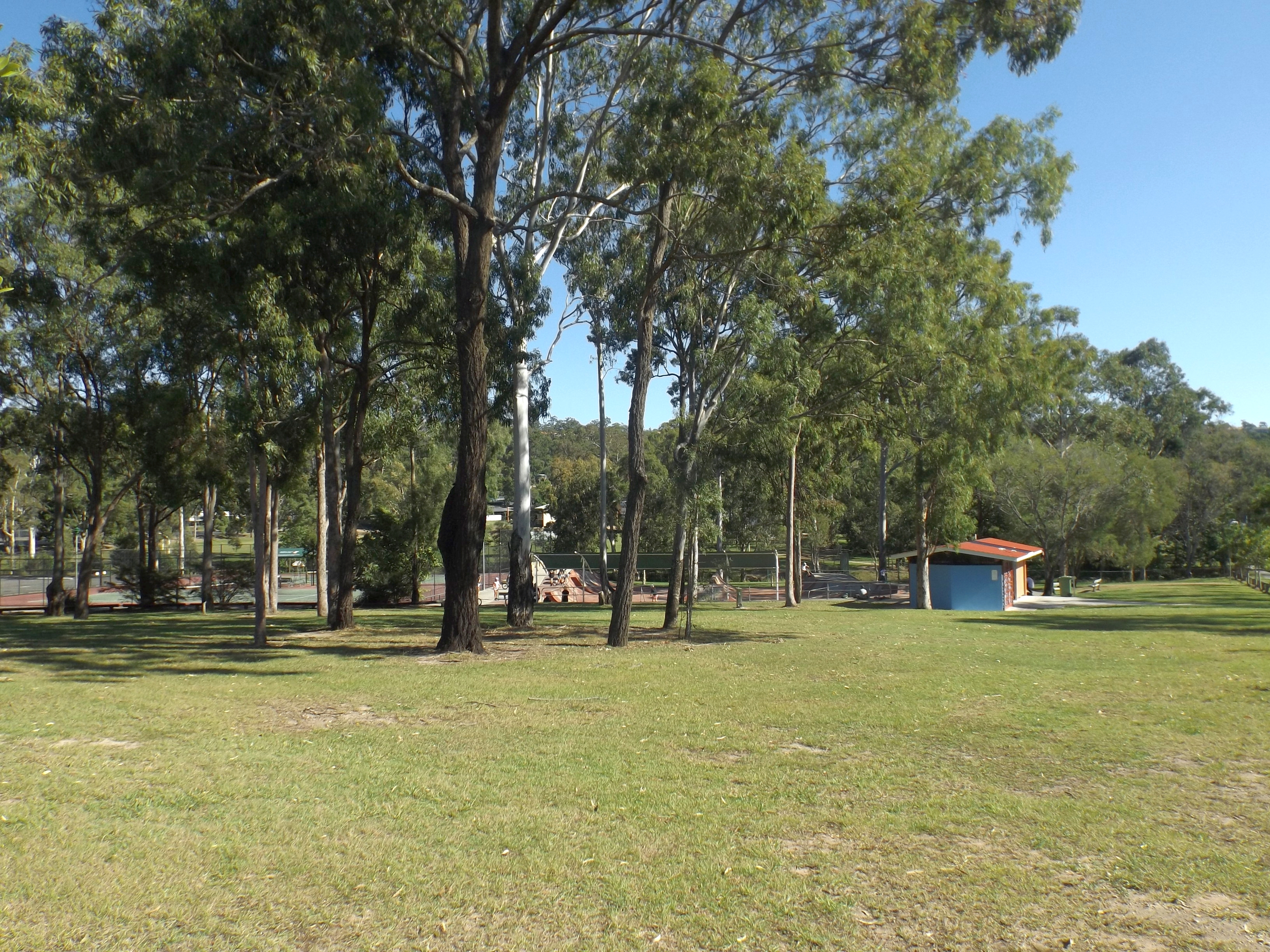 Photo of Discovery Park at Helensvale, Gold Coast, Queensland, Australia.